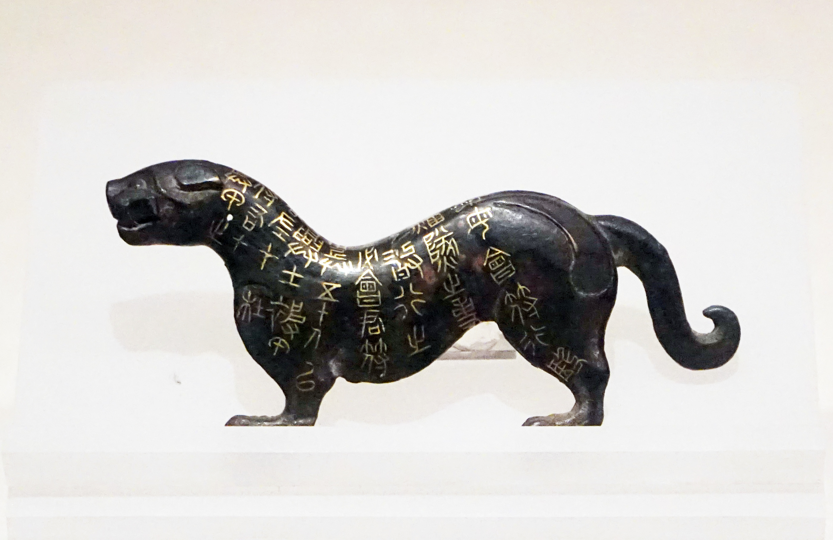 Bronze Tiger-shaped Tally. Qin Dynasty. Excavated Shanmenkou, southern suburbs of Xi'an.